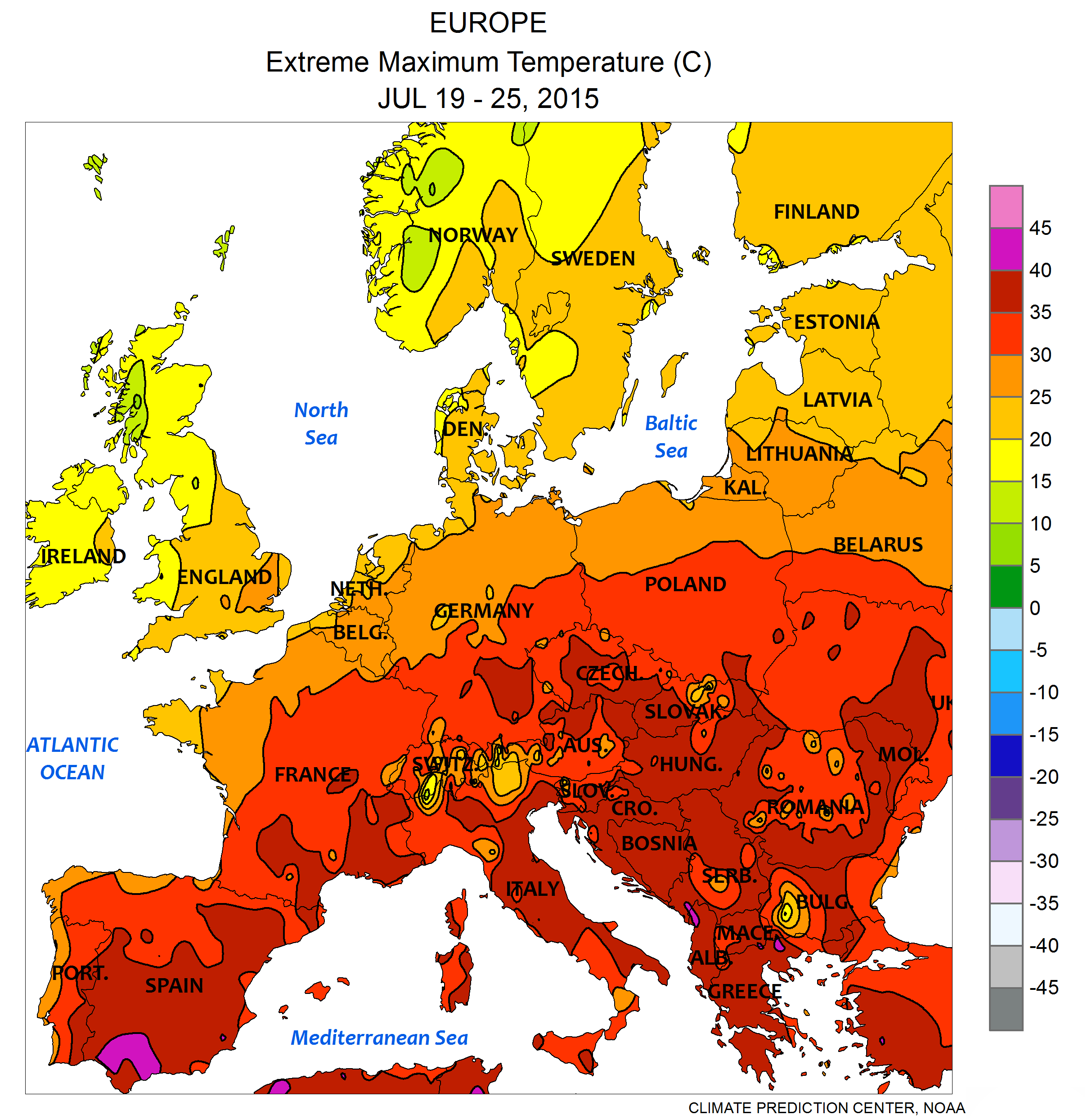 Europe: Extreme maximum temperature July 19 - 25, 2015, computer generated colours, based on preliminary data